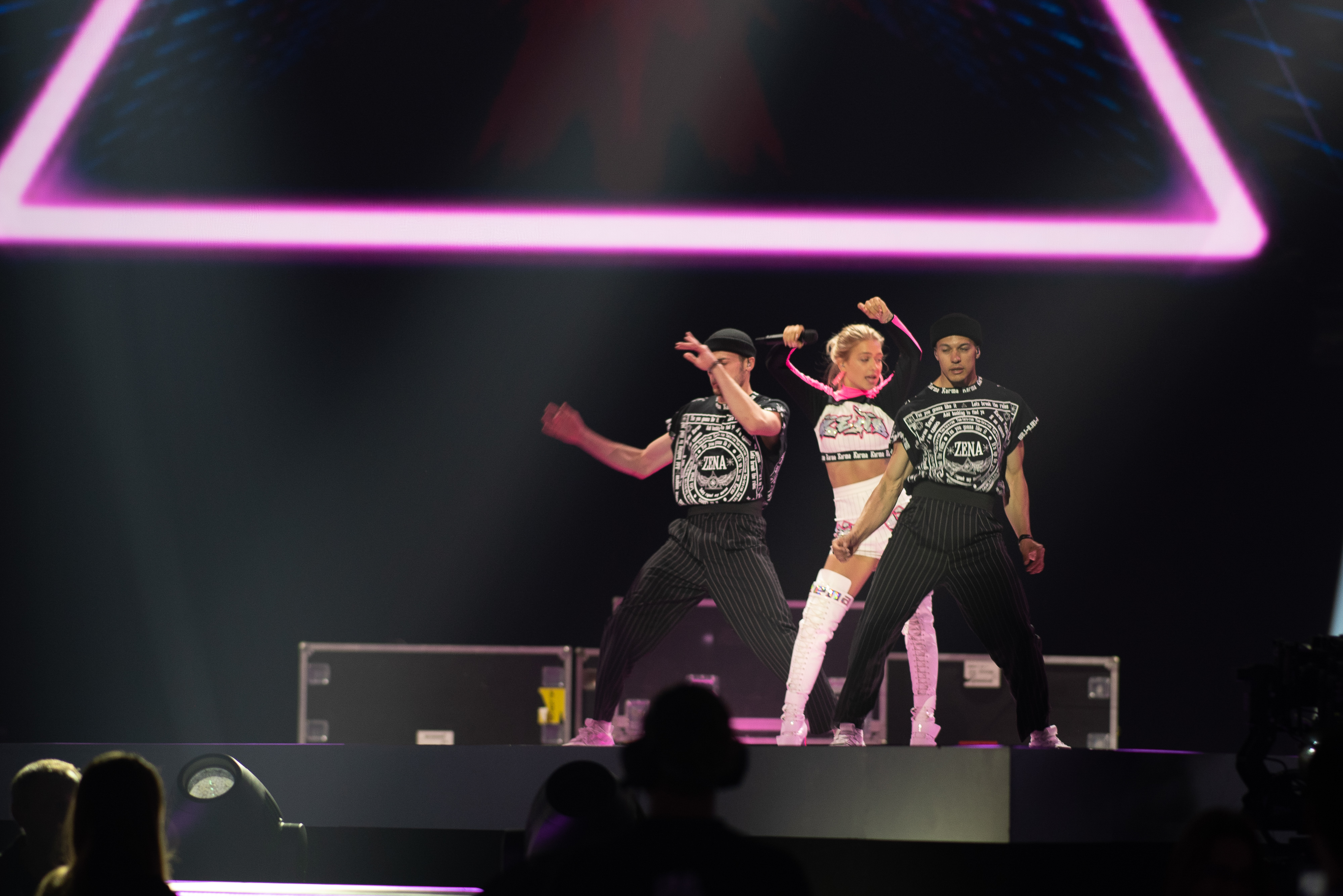 ZENA representing Belarus with the song "Like It" during a rehearsal before the grand final of the Eurovision Song Contest 2019 in Tel-Aviv.